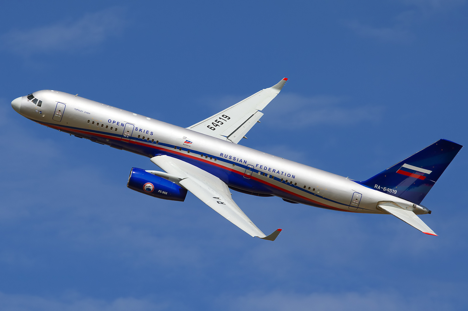 A Russian Air Force Tupolev Tu-214ON at Ramenskoye Airport (UUBW)